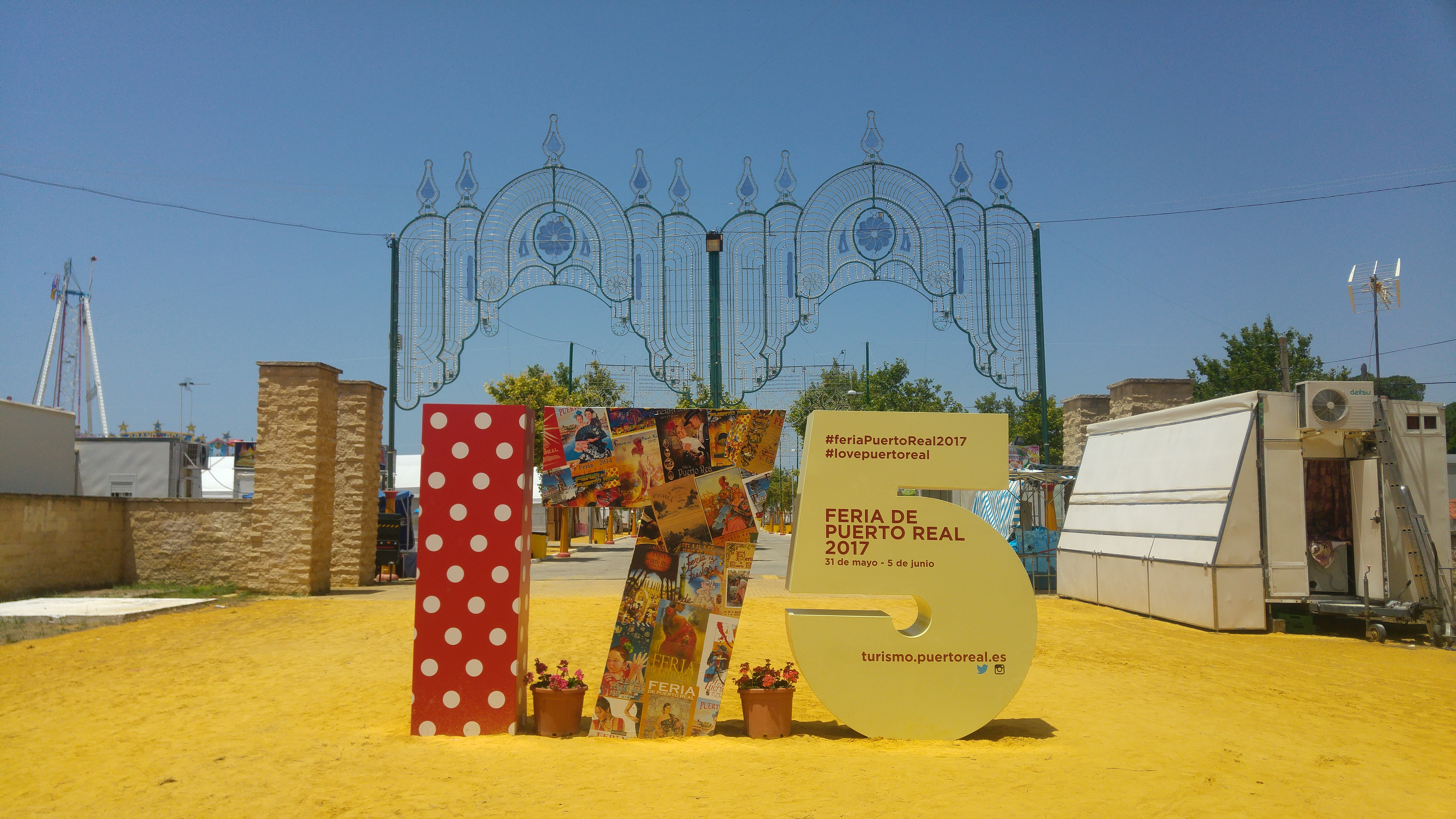 View of the fair of Puerto Real, in Spain in 2017.